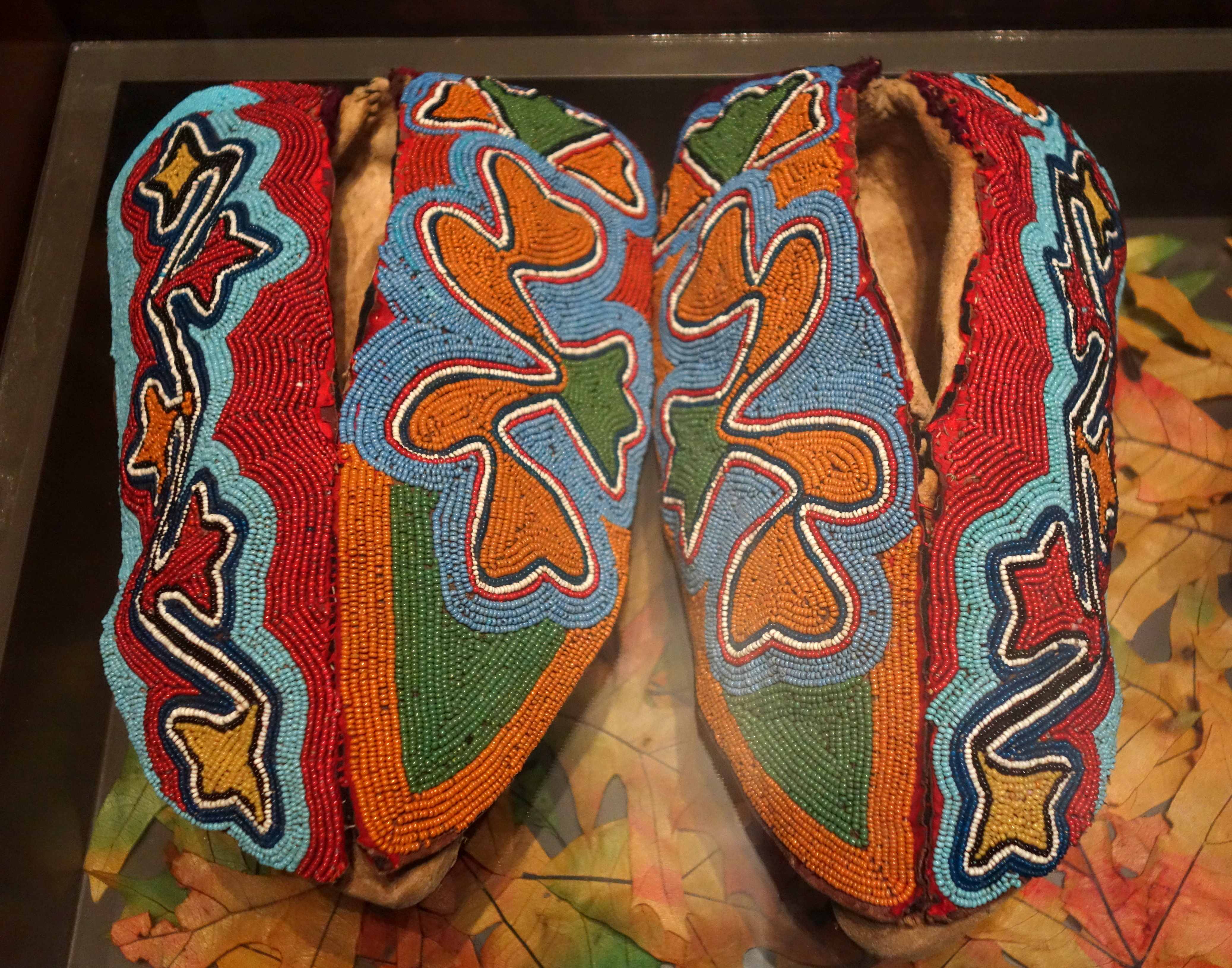 Exhibit in the Bata Shoe Museum, Toronto, Ontario, Canada. This item is old enough so that its design is in the public domain. The museum permitted photography without restriction.